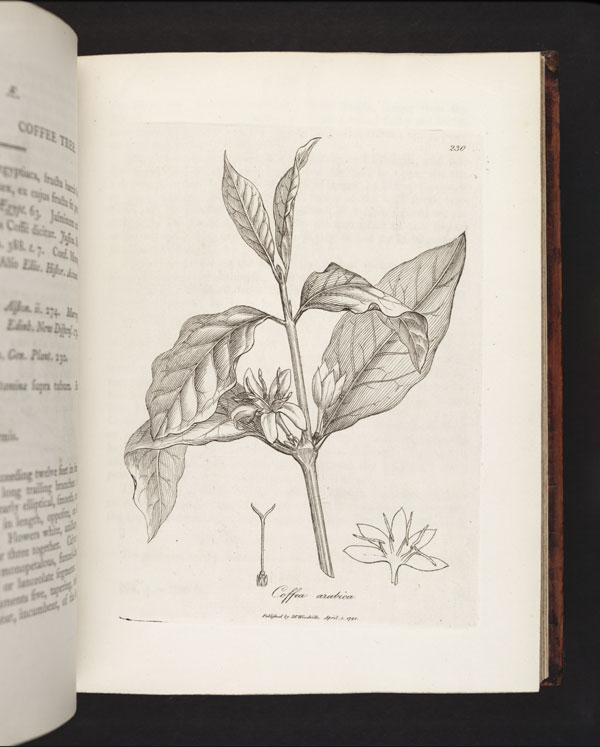 Illustration of Coffea arabica 230 (Coffea arabica L., Arabian coffee) from A supplement to Medical botany, or, Part the second : containing plates with descriptions of most of the principal medicinal plants not included in the materia medica of the collegiate pharmacopoeias of London and Edinburgh : accompanied with a circumstantial detail of their medicinal effects, and of the diseases in which they have been successfully employed by William Woodville